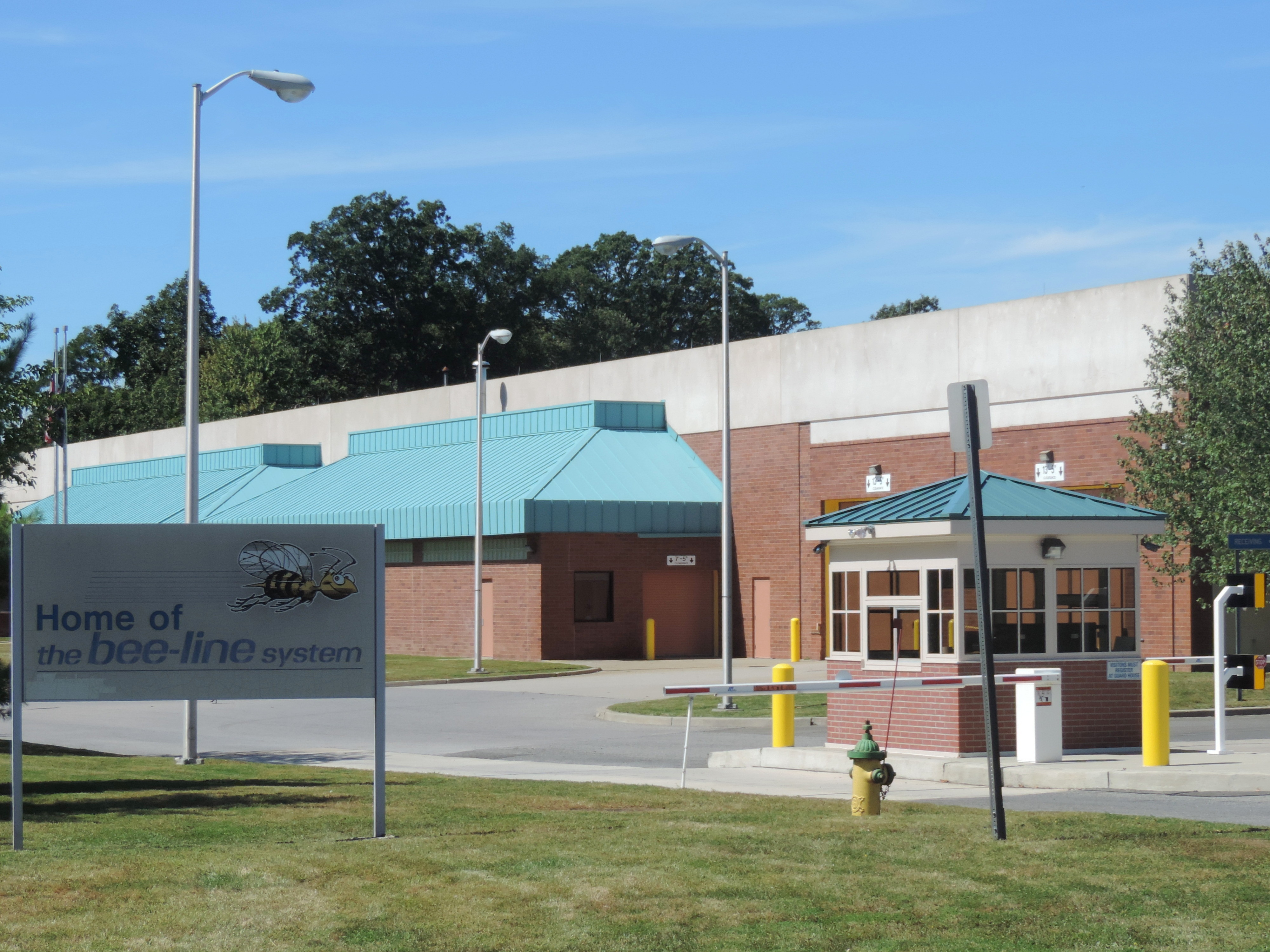 Looking northwest at bus depot in Valhalla Campus on a sunny midday. Sign says "home" but it probably isn't headquarters.